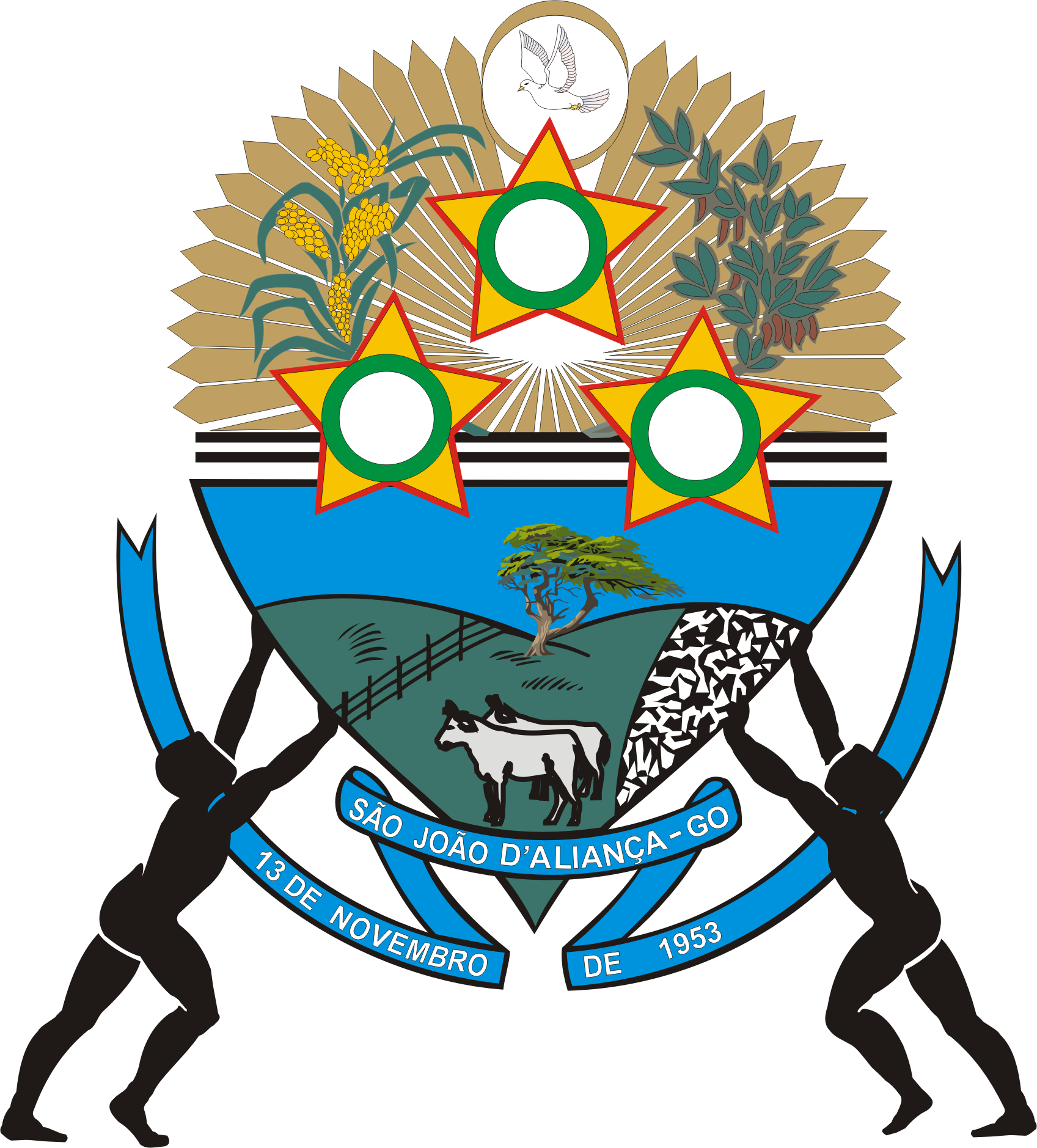 Coats of arms of the municipal district of São João d'Aliança - Goiás, Brazil.